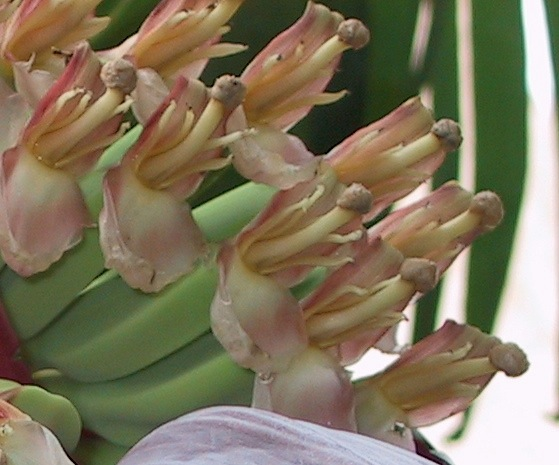 Image cropped to show the female flowers (with inferior ovary)